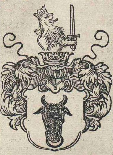 Wieniawa coat of arms by B. Paprocki, published in "Herby rycerztwa.."